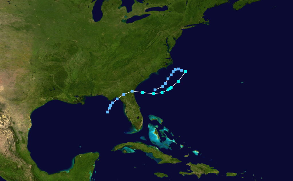 Subtropical Storm Alpha (1972) track. Uses the color scheme from the Saffir-Simpson Hurricane Scale.